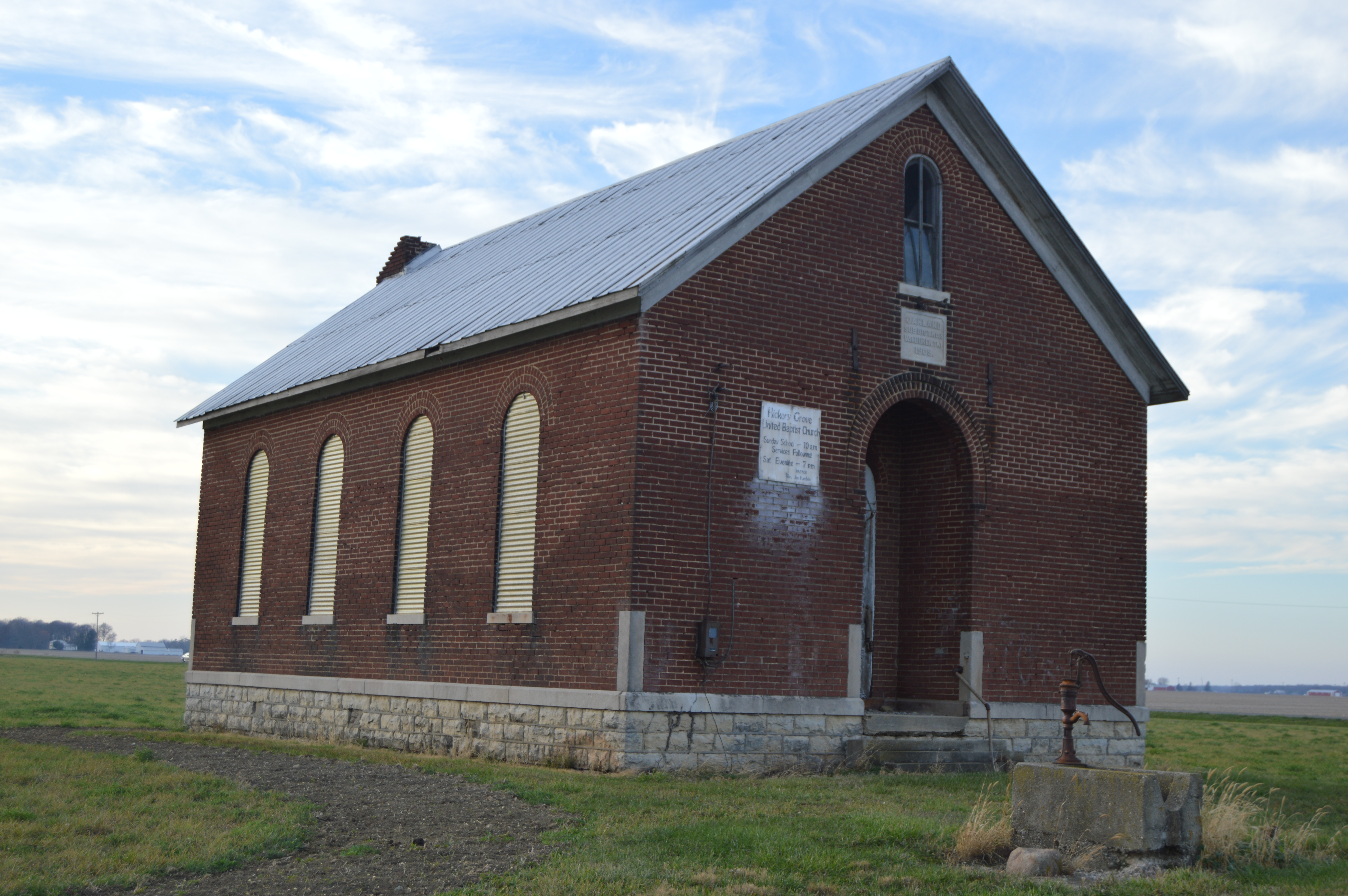 Front and southern side of the former Oakland Sub-District School #8 (now the Hickory Grove United Baptist Church), located on the western side of Gordon-Landis Road just south of the Hogpath Road intersection in Van Buren Township, Darke County, Ohio, United States. It was built in 1909.